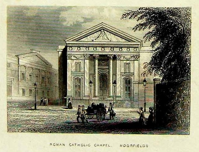 An engraving from the workshop of A. H. Payne, originally produced for his "Illustrated London, or a Series of Views in the British Metropolis and its Vicinity" (London : 1846-1847), and here in a slightly later impression dating from 1852. Steel line engraving on paper. Engraved surface 66 x 86mm.